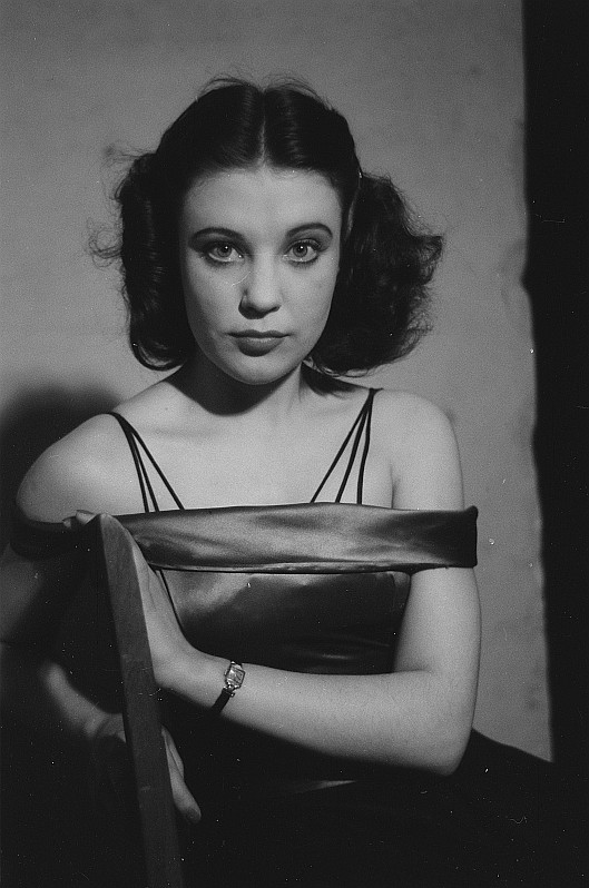 Original image description from the Deutsche FotothekPortrait Rita Pauls